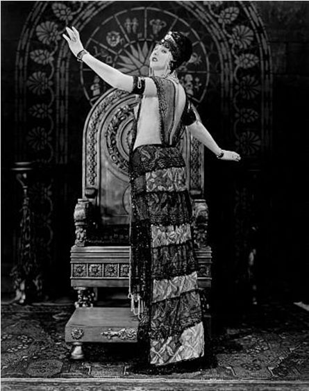 Betty Blythe in Queen of Sheba